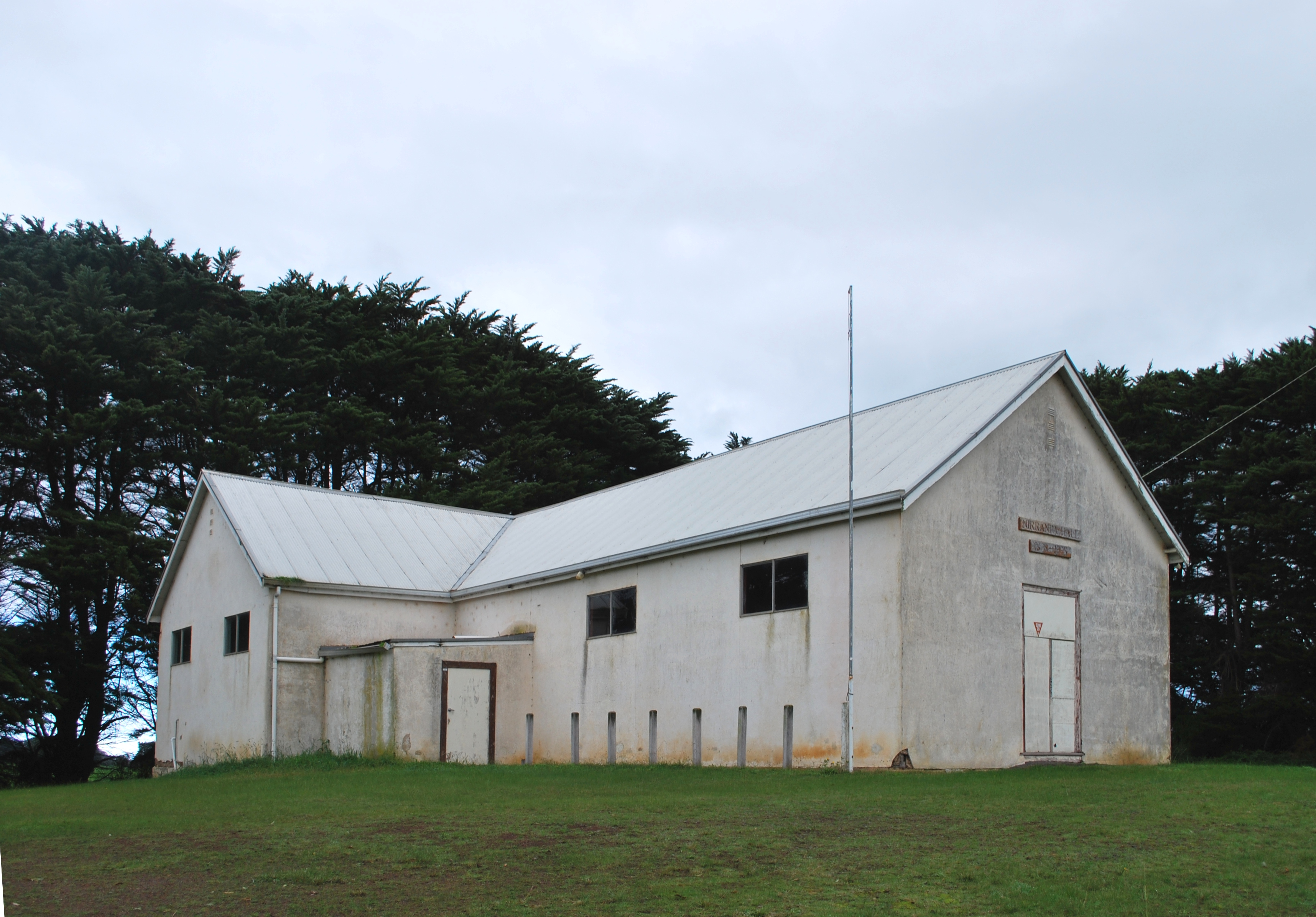 Public hall at Nirranda, Victoria